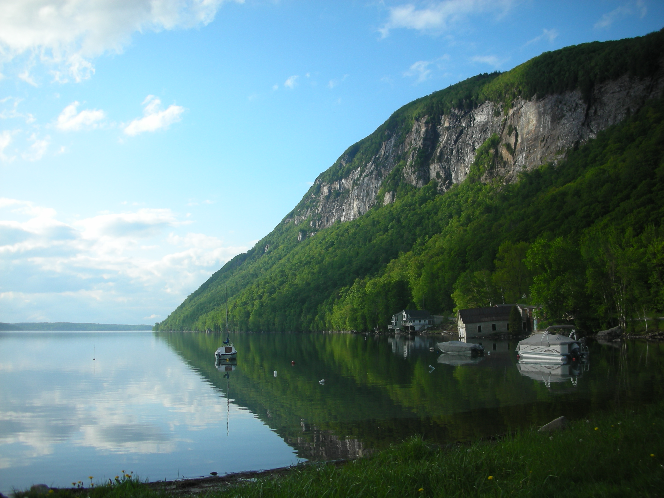 A view of Lake Willoughby and Mount Pisgah in Westmore, Vermont